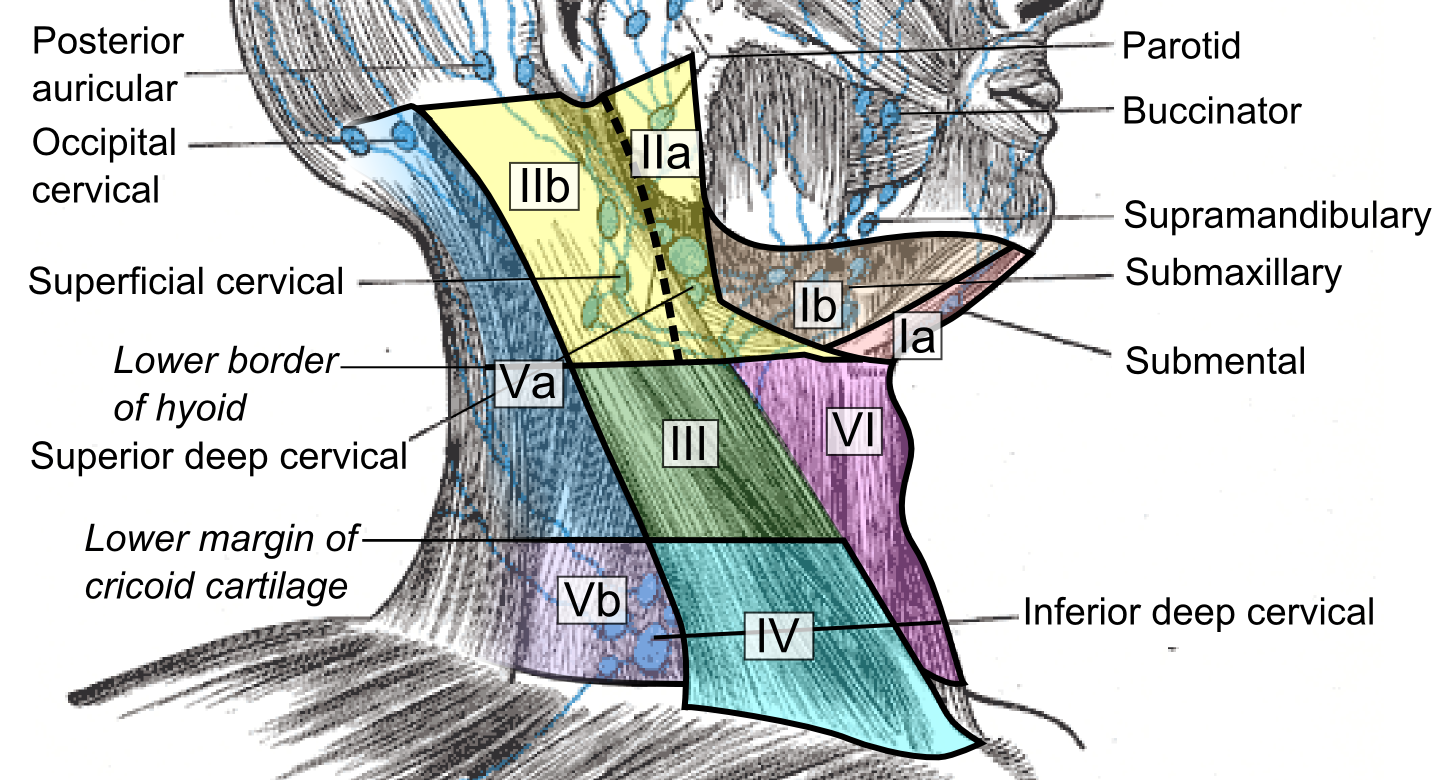 Superficial cervical lymph nodes and lymph node levels, initially described by the Memorial Sloan-Kettering Cancer Center (New York, NY) and further specified by the Committee for Head and Neck Surgery and Oncology of the American Academy of Otolaryngology–Head and Neck Surgery in 1991: (2002). "A Proposal for Redefining the Boundaries of Level V in the Neck". Archives of Otolaryngology–Head & Neck Surgery 128 (12): 1381. ISSN 0886-4470.